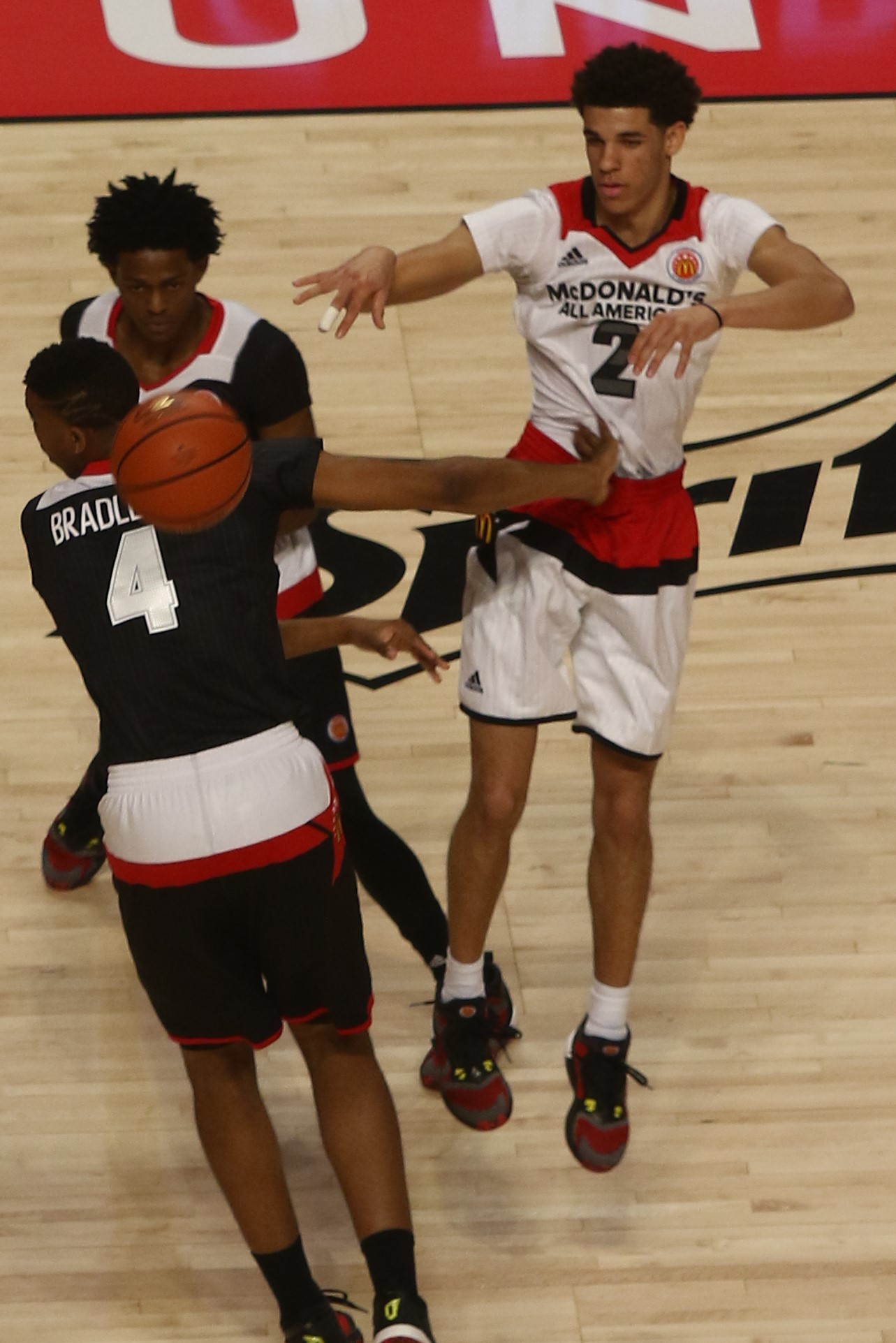 Lonzo Ball passes over Tony Bradley Jr. at the w:2016 McDonald's All-American Boys Game